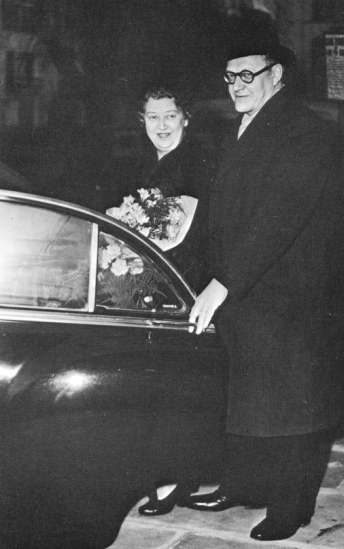 Photograph of the Finnish politician Eero A. Wuori (1900–1966) with his wife Kerttu.